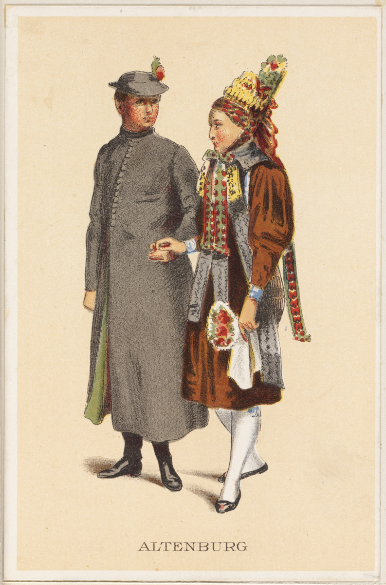 File name: 07_11_000880 Title: German Peasant Costumes - Altenburg Creator/Contributor: L. Prang & Co. (publisher) Date issued: 1861-1897 (approximate) Copyright date: Physical description note: Genre: Chromolithographs; Portrait prints; Group portraits Location: Boston Public Library, Print Department Rights: No known restrictions Flickr data on 2011-08-05: Camera: Sinar AG Sinarback 54 FW, Sinar m License: CC BY 2.0 User: Boston Public Library BPL